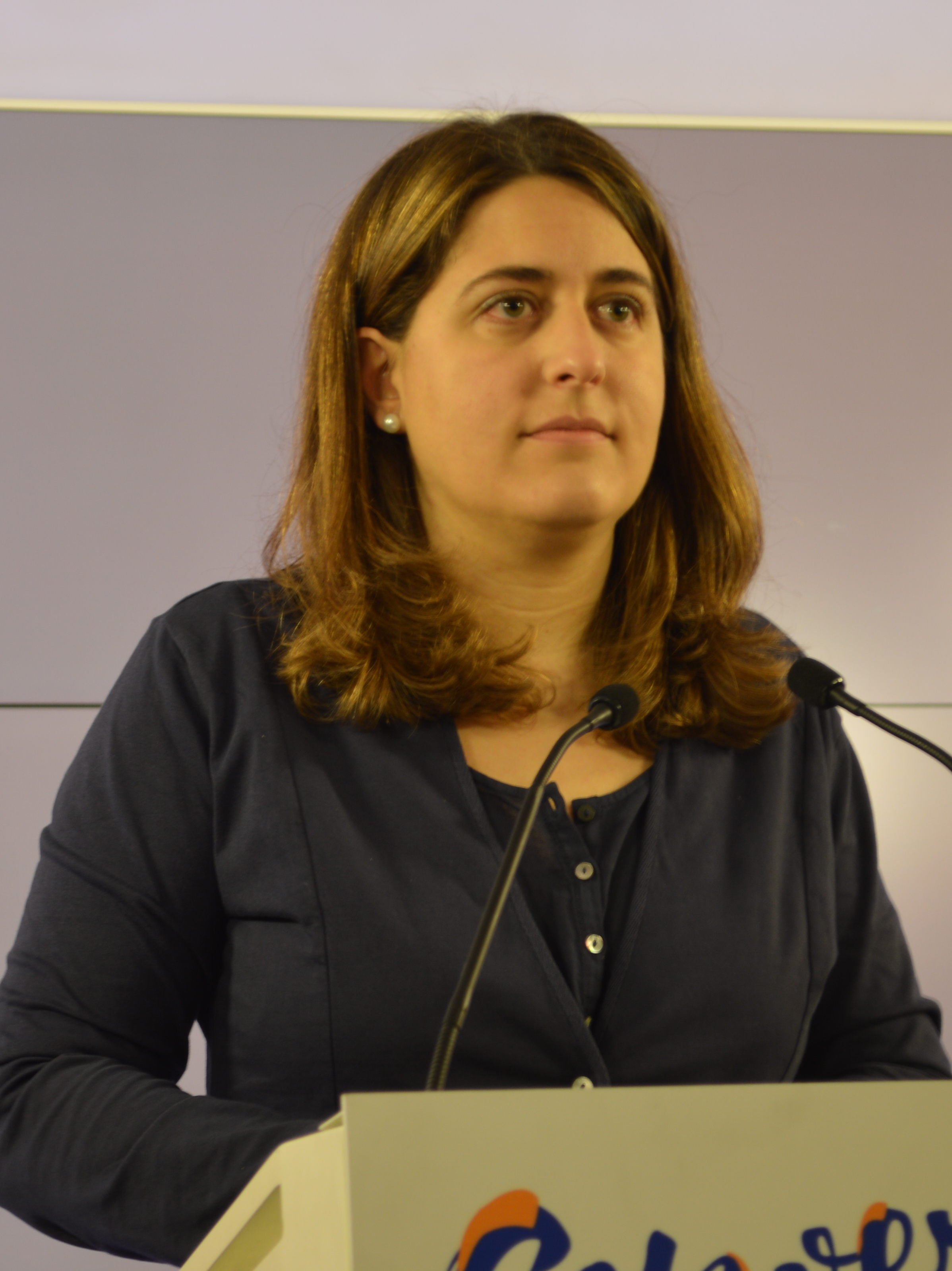 Marta Pascal, rueda de prensa